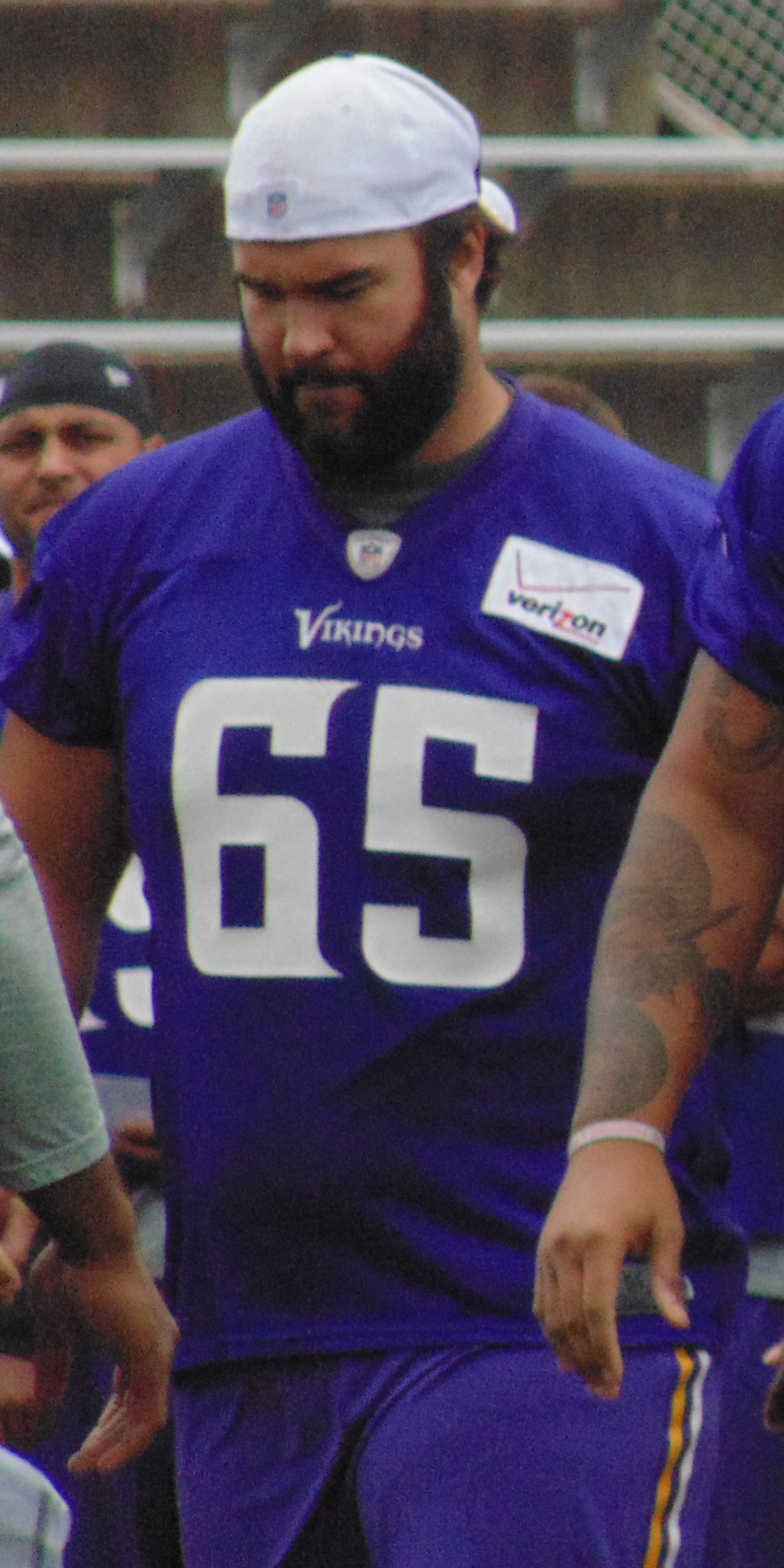 John Sullivan, Charlie Johnson, Matt Khalil of the o-line